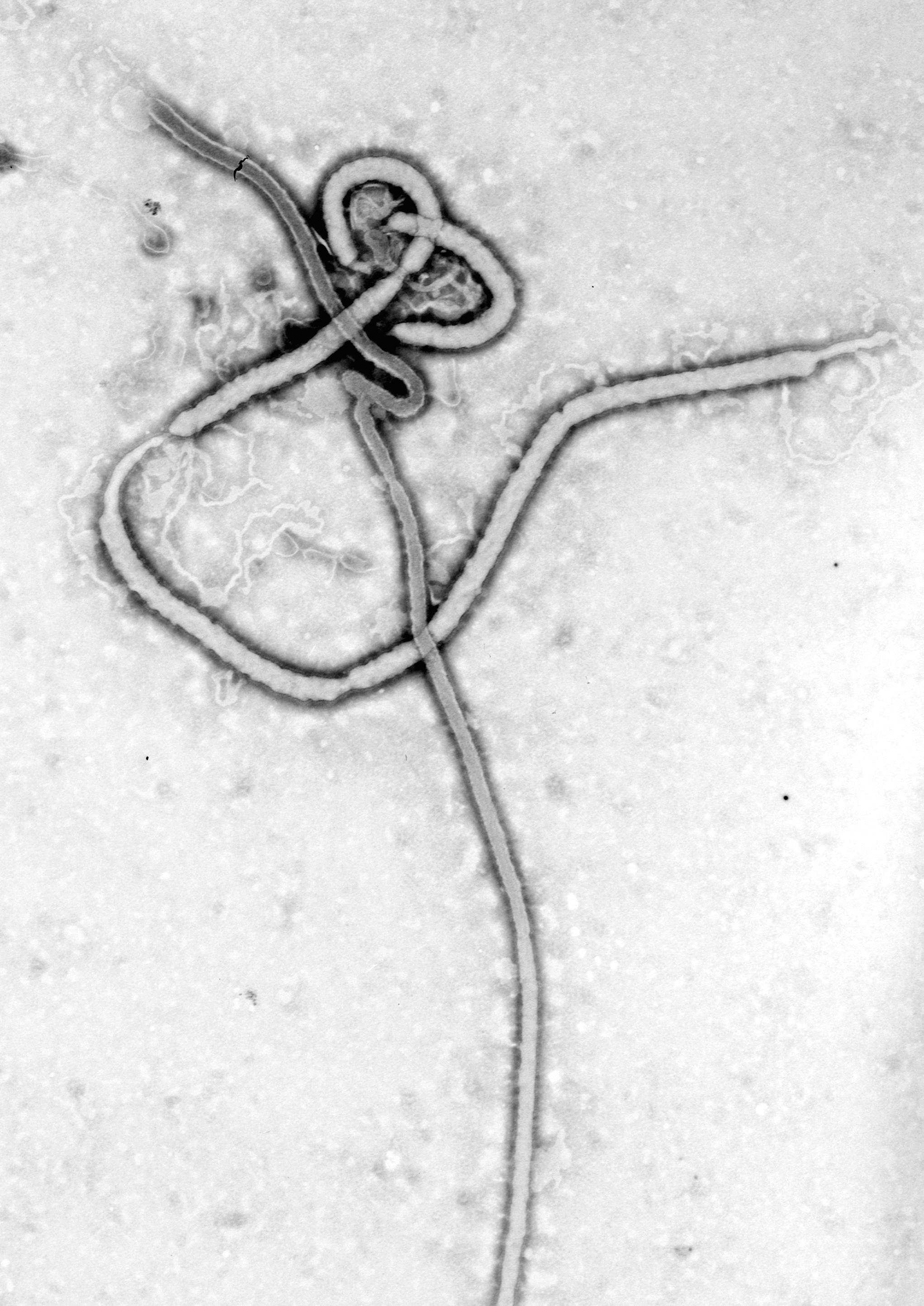 Transmission Electron Micrograph of the Ebola Virus. Hemorrhagic Fever, RNA Virus.